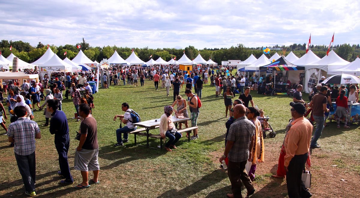 Visitors and Pavilions at the Heritage Festival in Edmonton, Alberta, Canada, taken August 1, 2015 by Andy Strohkirch